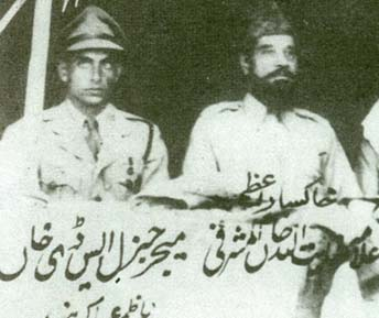 gonsa bbcs bmxbvma x vavbcmnbcmnb bcbzmbmanz cmnxbzmc nbcm cmnz bMNC amnm csc zzc c a mnc